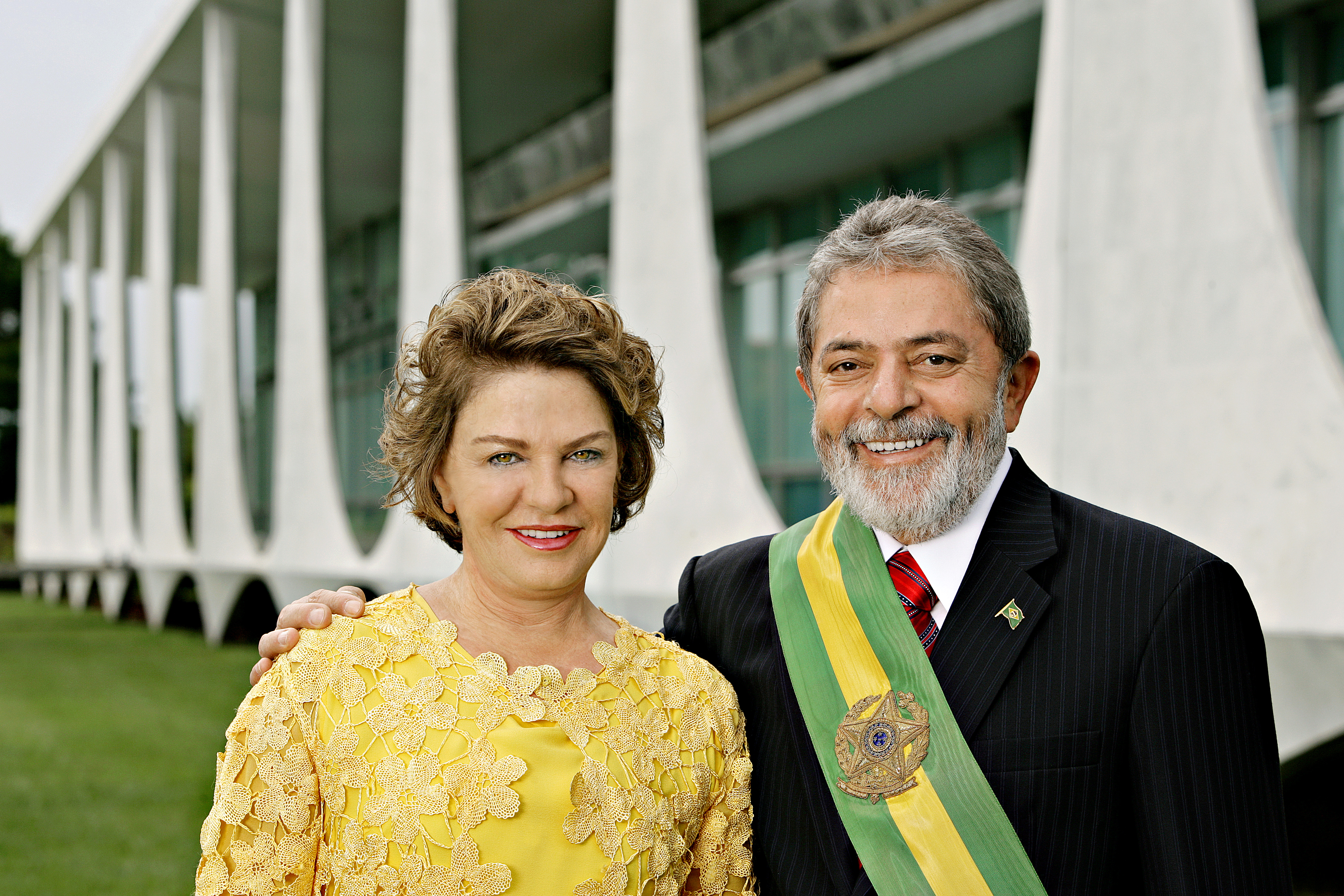 Luiz Inácio Lula da Silva, President of Brazil